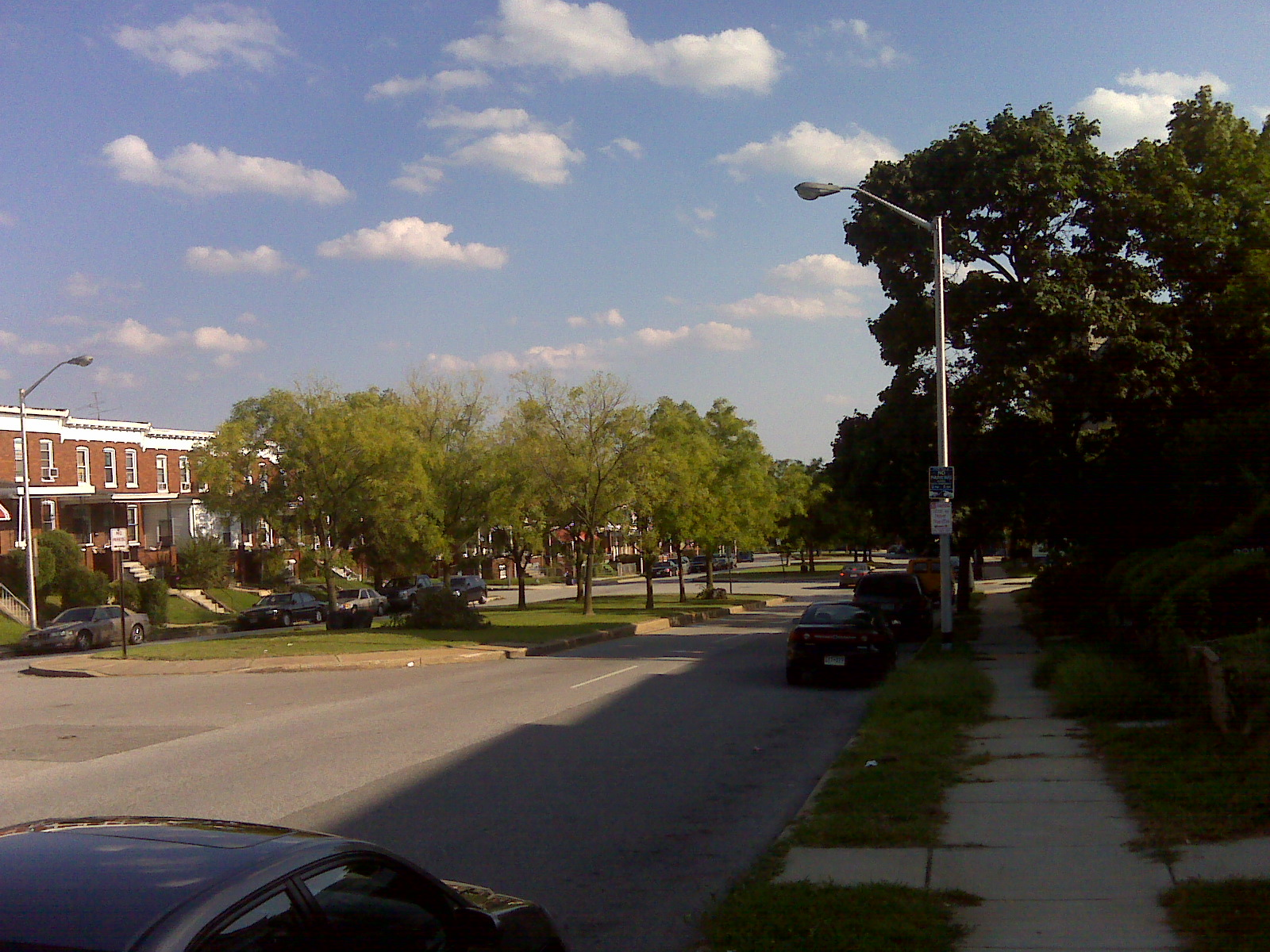 A view of The Alameda in Baltimore, which carries part of MD 542. The road has a residential setting which does not change much from this appearance as long as it carries MD 542.